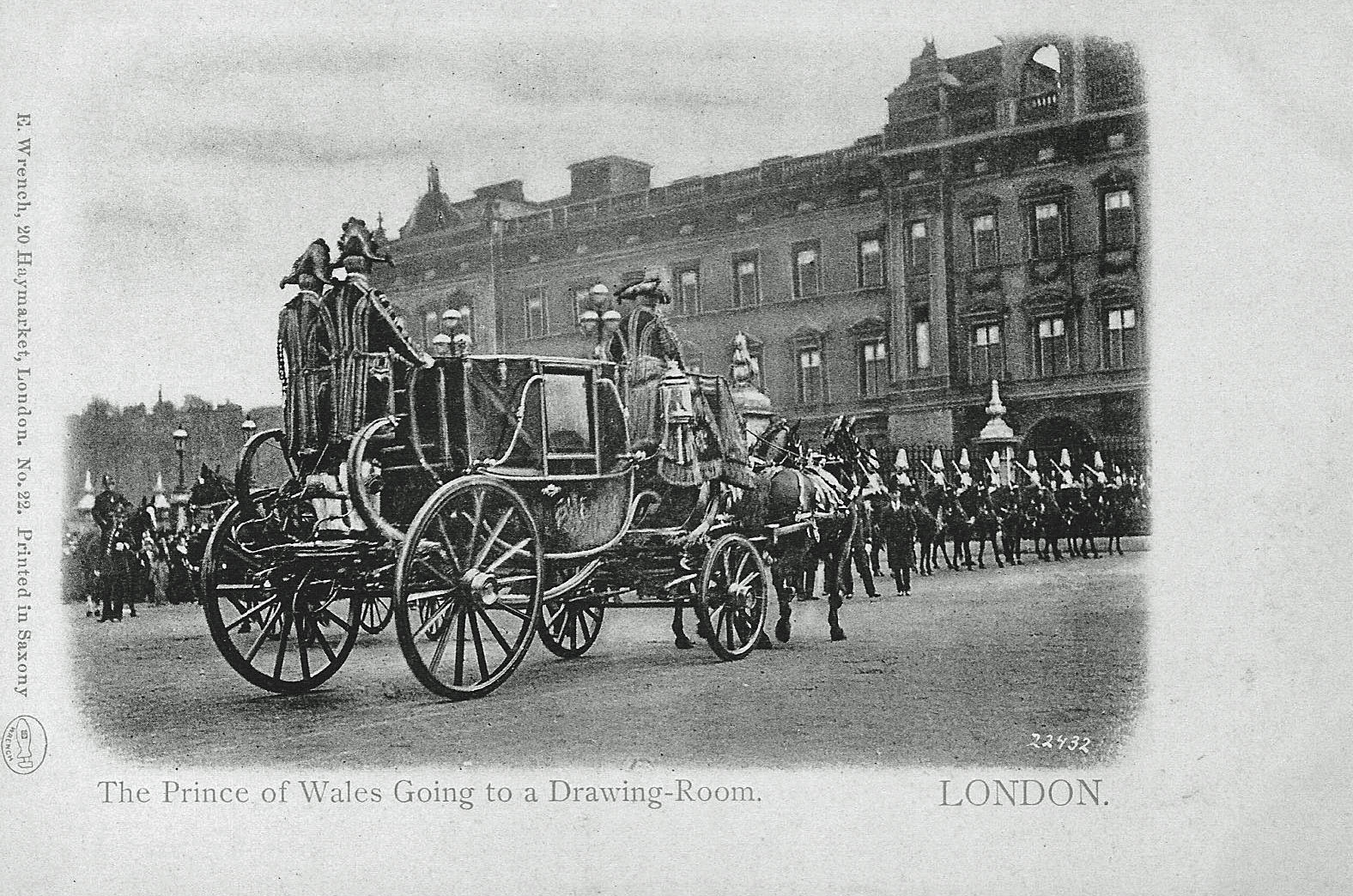 This is the scene outside Buckingham Palace on the day of a Court Drawing Room showing the Prince of Wales coach and two members of the Metropolitan Police on the left. Court Drawing Rooms were held four times a year, two before Easter and two in the summer. This was the time when young ladies were presented to the Monarch and in Queen Victoria's time kissed her hand. There were strict criteria as to who could be presented. The dates of the Drawing Rooms were announced by the Lord Chamberlain whose job it was to vet the applicants. There were three main criteria. The young Lady had to be of good moral and social character. She had to be presented by a lady who had already been presented at court and had kissed the Monarch's hand. The status of the young lady, i.e. a daughter of an aristocratic family, daughter of a professional family, lawyers, clergy, army etc. The Court Drawing room was the forerunner of the debutante Ball which was discontinued by Queen Elizabeth II in 1958. I think that this photograph was taken at the end of Queen Victoria's reign or the beginning of King Edward VII's reign. The postcard was published by Wrench & Co and printed in Saxony.